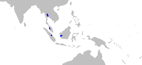 Range of the white-edge freshwater whipray (Himantura signifer).